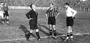 Derby d'Italia. 1933. Giuseppe Meazza /Inter/ and Giampiero Combi /Juventus/.